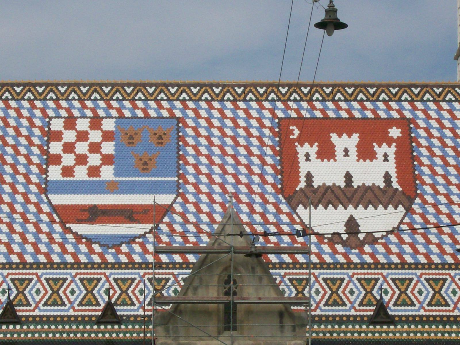 CoA's on the roof of St. Marko Church Zargeb, Croatia